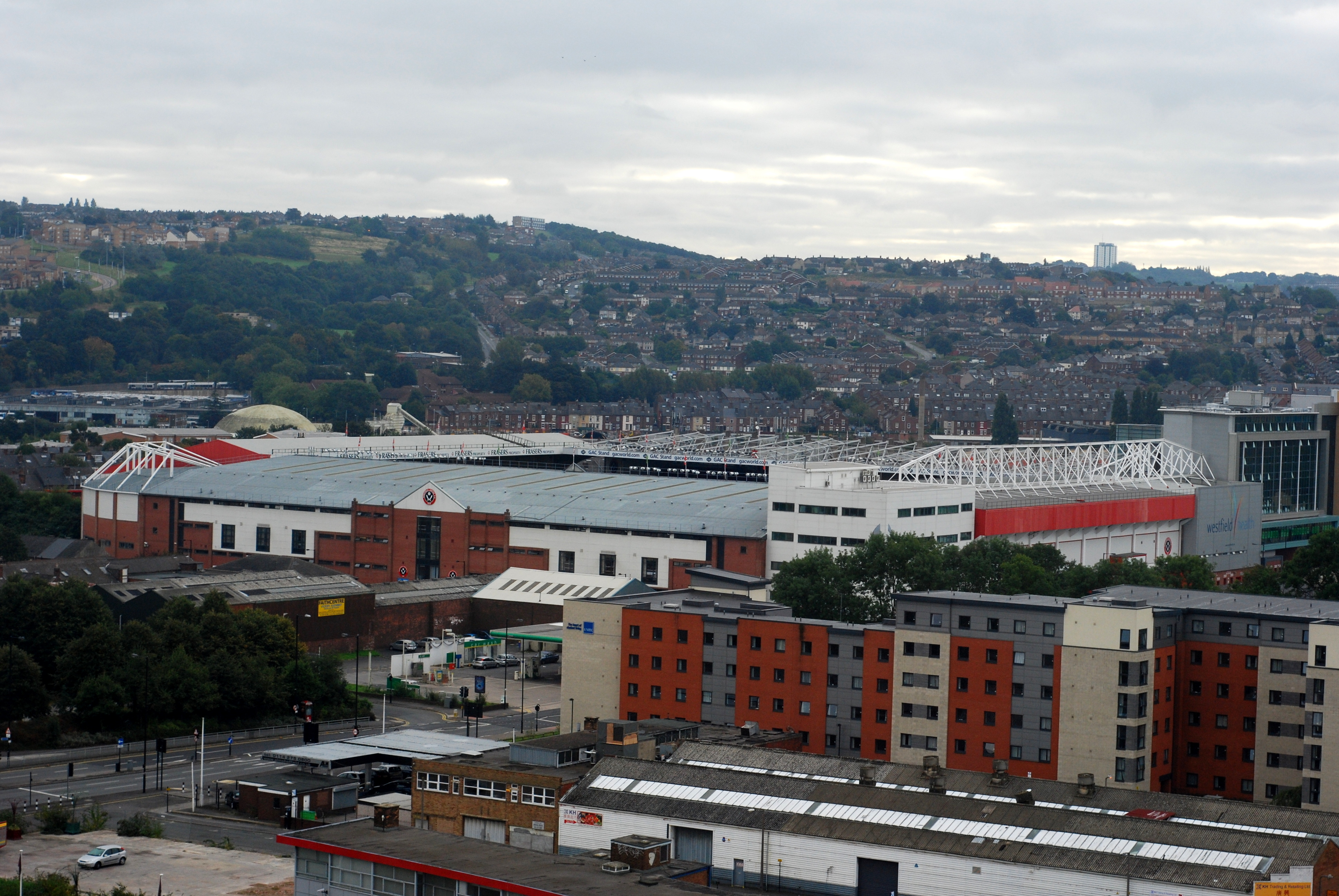 Bramall Lane football stadium, Sheffield from the nearby Premier Inn